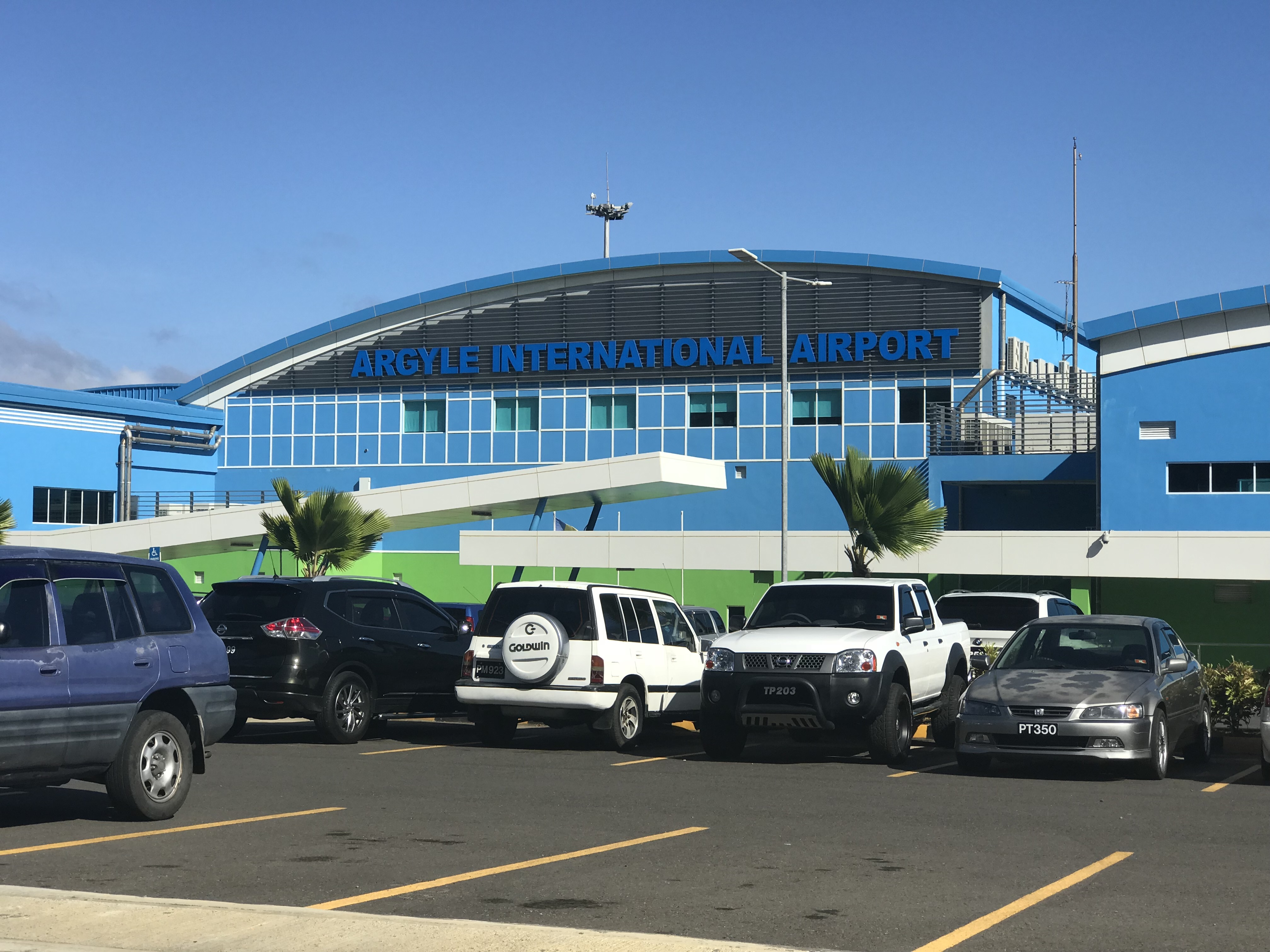 Argyle terminal from parking lot.